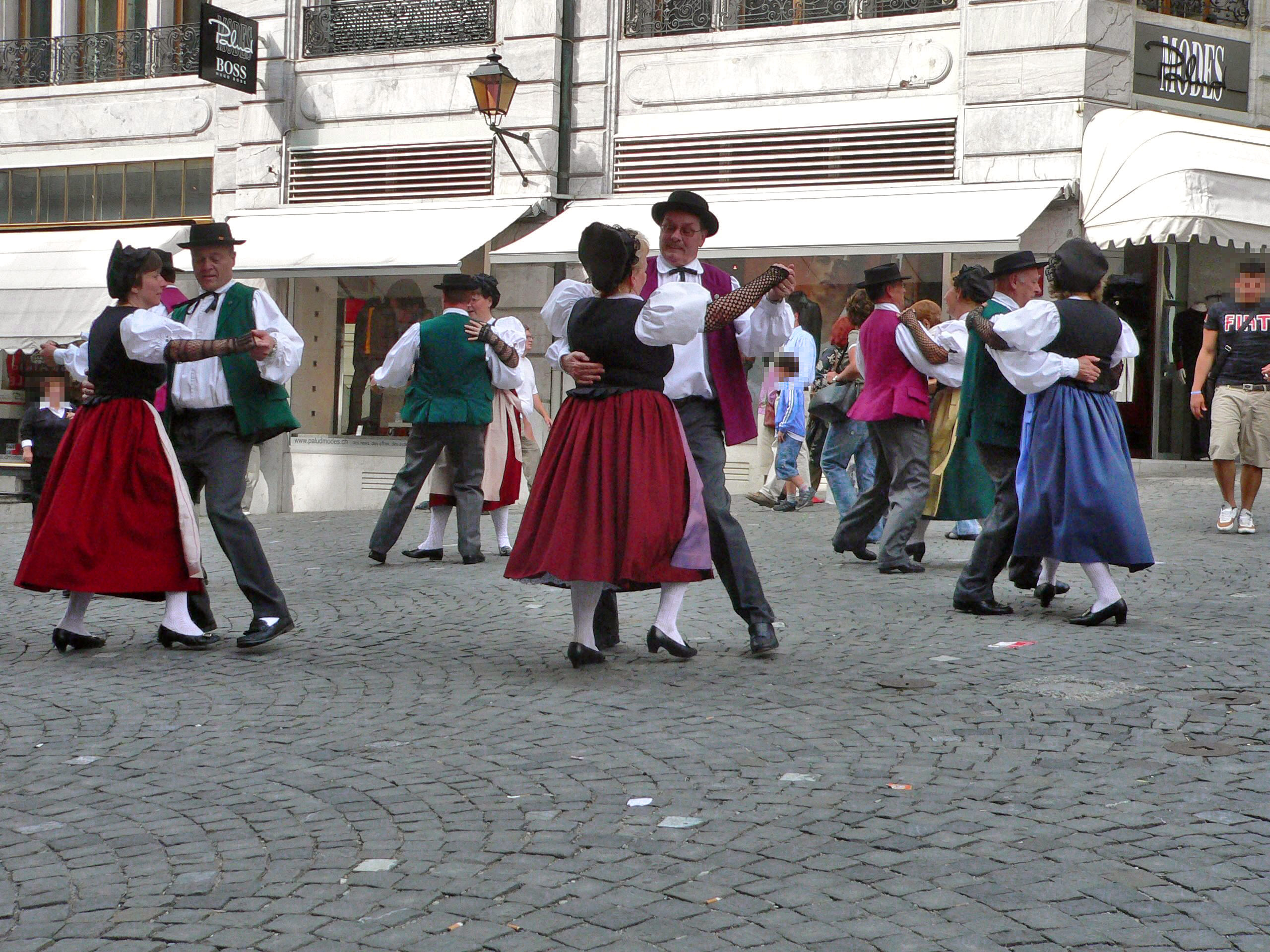 Folk danses show in Lausanne, Switzerland